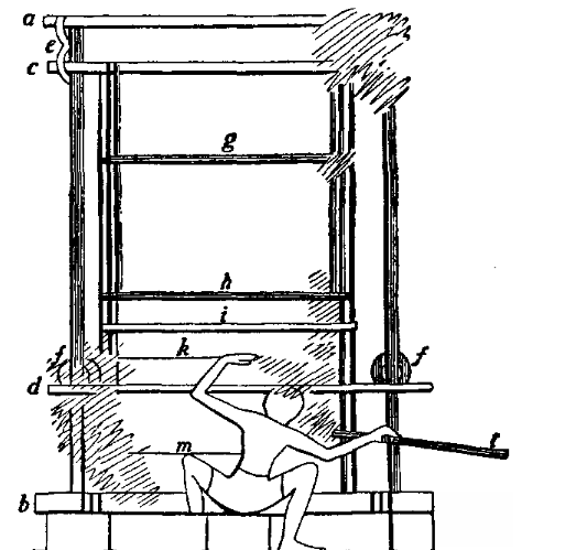 An illustration from the Encyclopaedia Biblica, a 1903 publication which is now in the public domain. Fig. 2 for article "Weaving". Image of an upright loom - the labels are referenced at various points of the article text. This is from an Egyptian artist of the New Kingdom, and is the oldest surviving depiction of a loom.